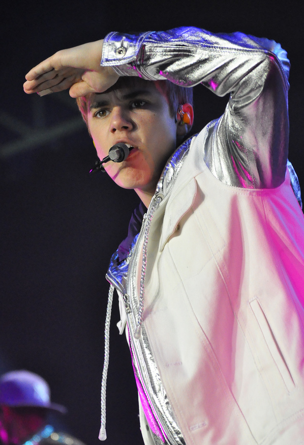 Justin Bieber - My World Tour 2011 - Sentul International Convention Center 23 April 2011